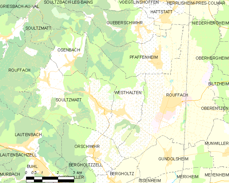 Map of French municipality